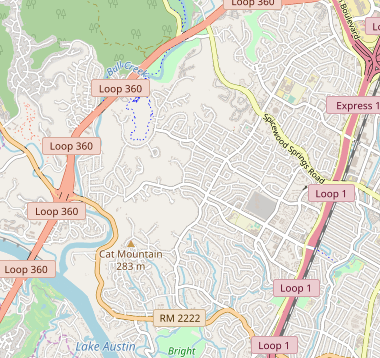 This map of Northwest Hills–Far West was created from OpenStreetMap project data, collected by the community. This map may be incomplete, and may contain errors. Don't rely solely on it for navigation.